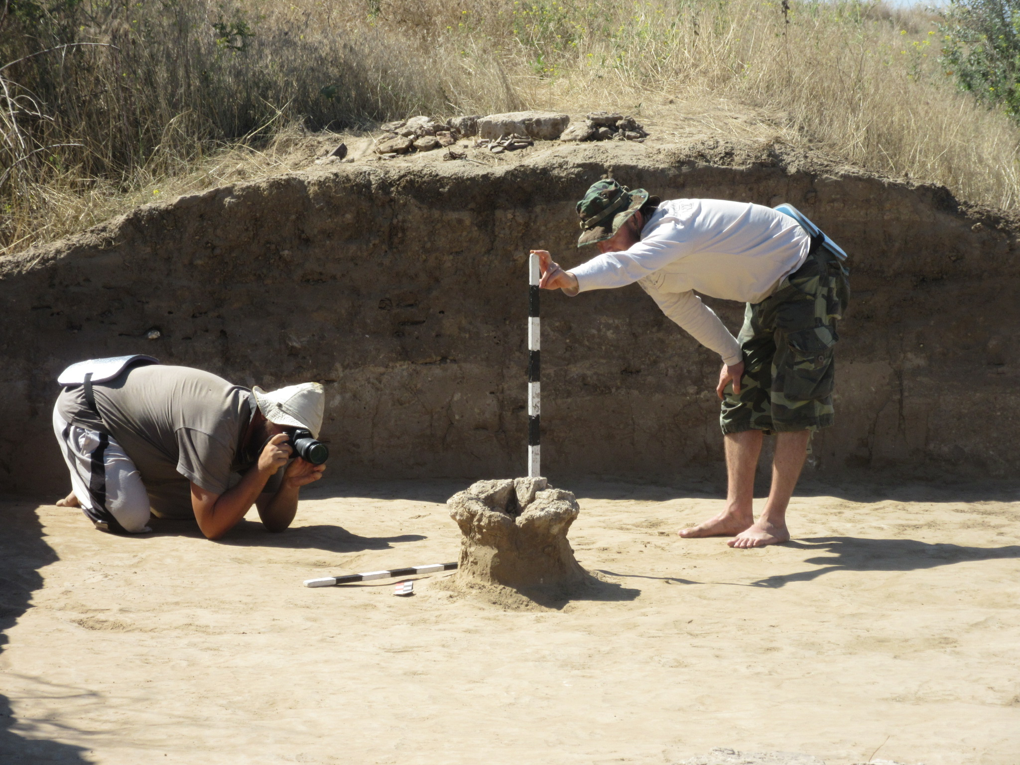 Archaeologist Serhii Nemtsev with the assistance of a member of expedition Ivan Shevtsov are making photo of the ancient object to "capture" it before filling the site with a ground. Bilozerske settlement, IV-III century B.C. (Kherson region). Archaeological expedition of Cherson State University, 2017, headed by Serhii Nemtsev (lecturer in Cherson State University).